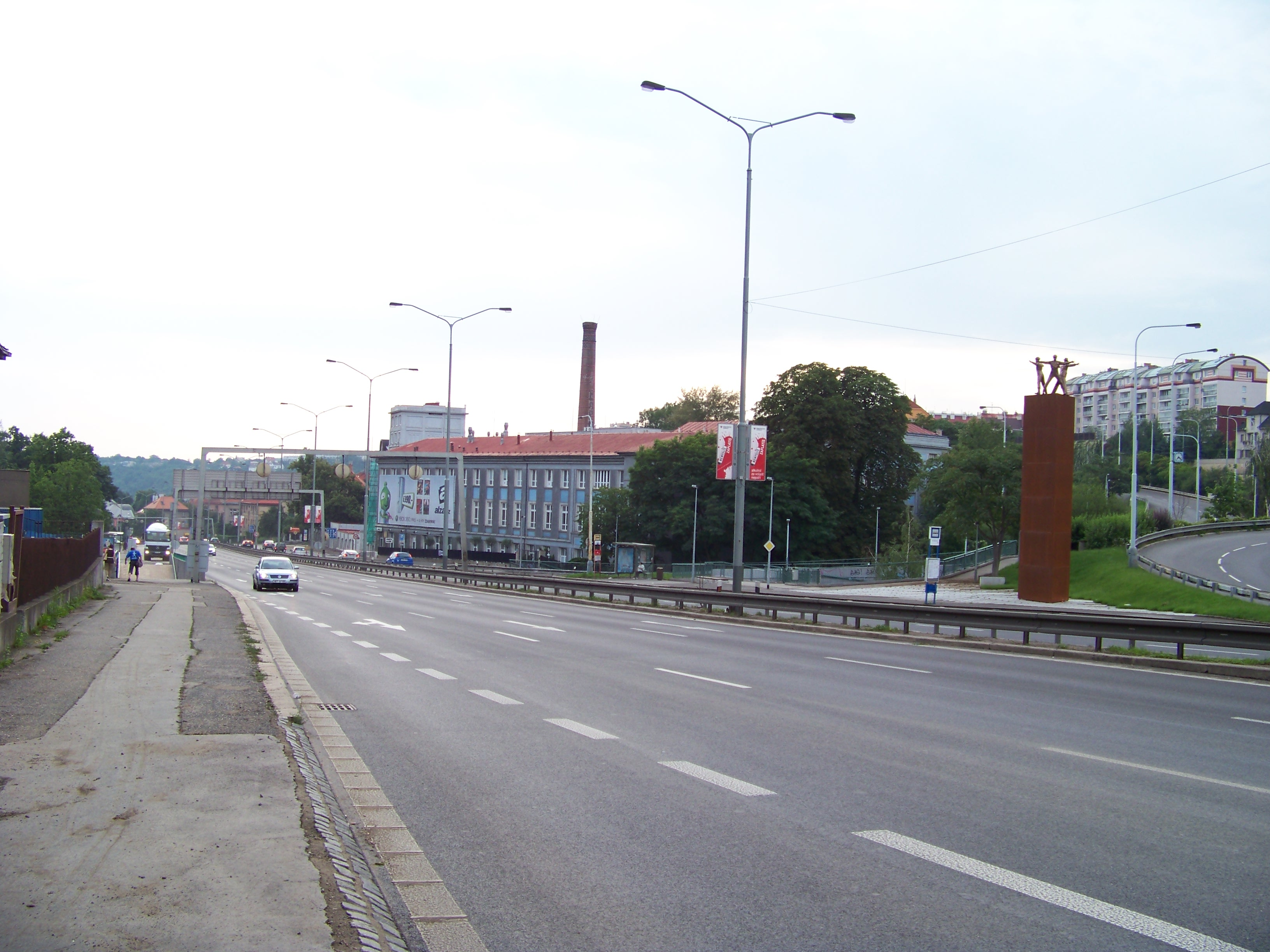 Libeň, Prague, the Czech Republic.